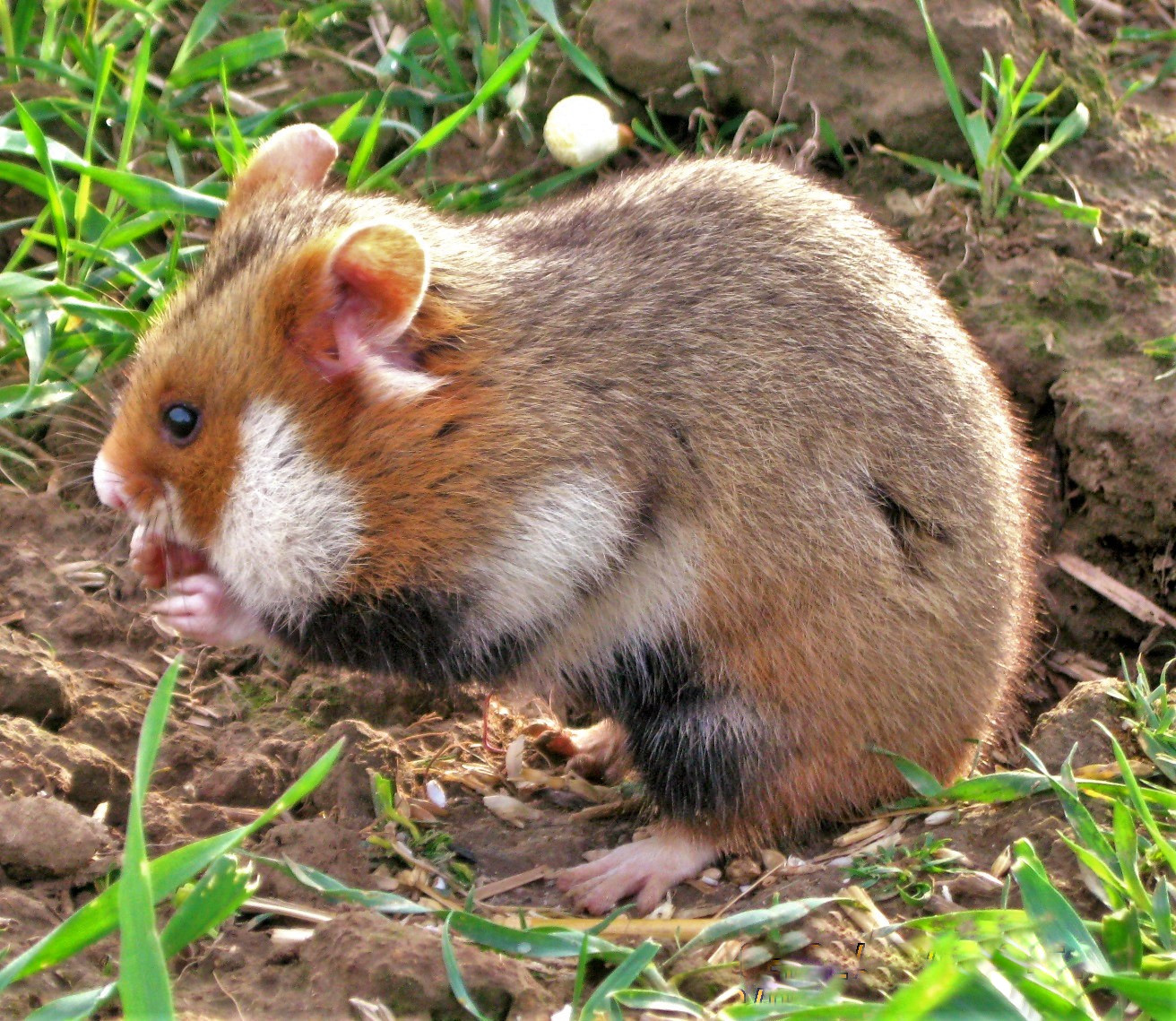 Cricetus cricetus - Lubin area; Poland